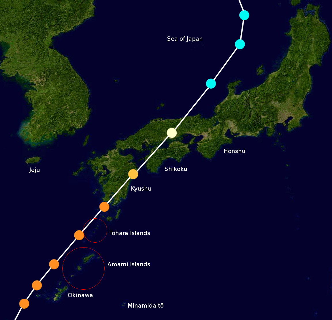 Track map of Typhoon Yancy of the 1993 Pacific typhoon season. The points show the location of the storm at 6-hour intervals. The colour represents the storm's maximum sustained wind speeds as classified in the Saffir-Simpson Hurricane Scale (see below), and the shape of the data points represent the nature of the storm, according to the legend below. Saffir–Simpson scale Tropical depression≤38 mph≤62 km/h Category 3111–129 mph178–208 km/h Tropical storm39–73 mph63–118 km/h Category 4130–156 mph209–251 km/h Category 174–95 mph119–153 km/h Category 5≥157 mph≥252 km/h Category 296–110 mph154–177 km/h Unknown Storm typeTropical cycloneSubtropical cycloneExtratropical cyclone / Remnant low / Tropical disturbance